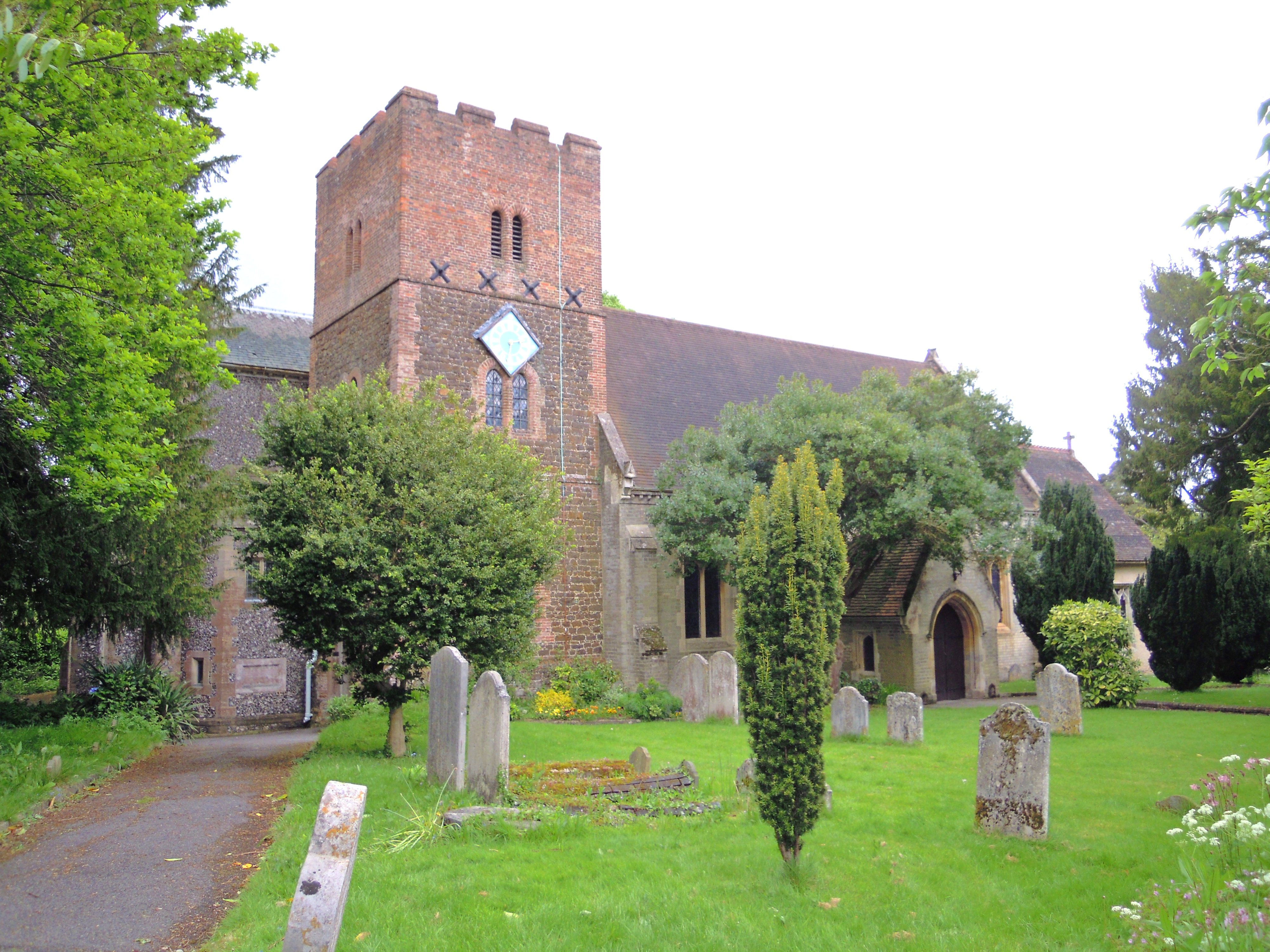 The exterior of Church of St Michael the Archangel in Aldershot in Hampshire